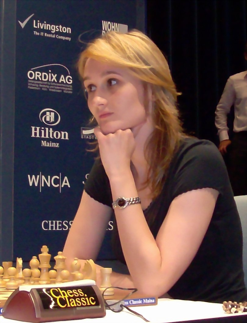 Viktorija Cmilyte, Lithuanian chess grandmaster